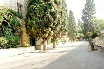 The Upper Campus of the International College, Beirut.